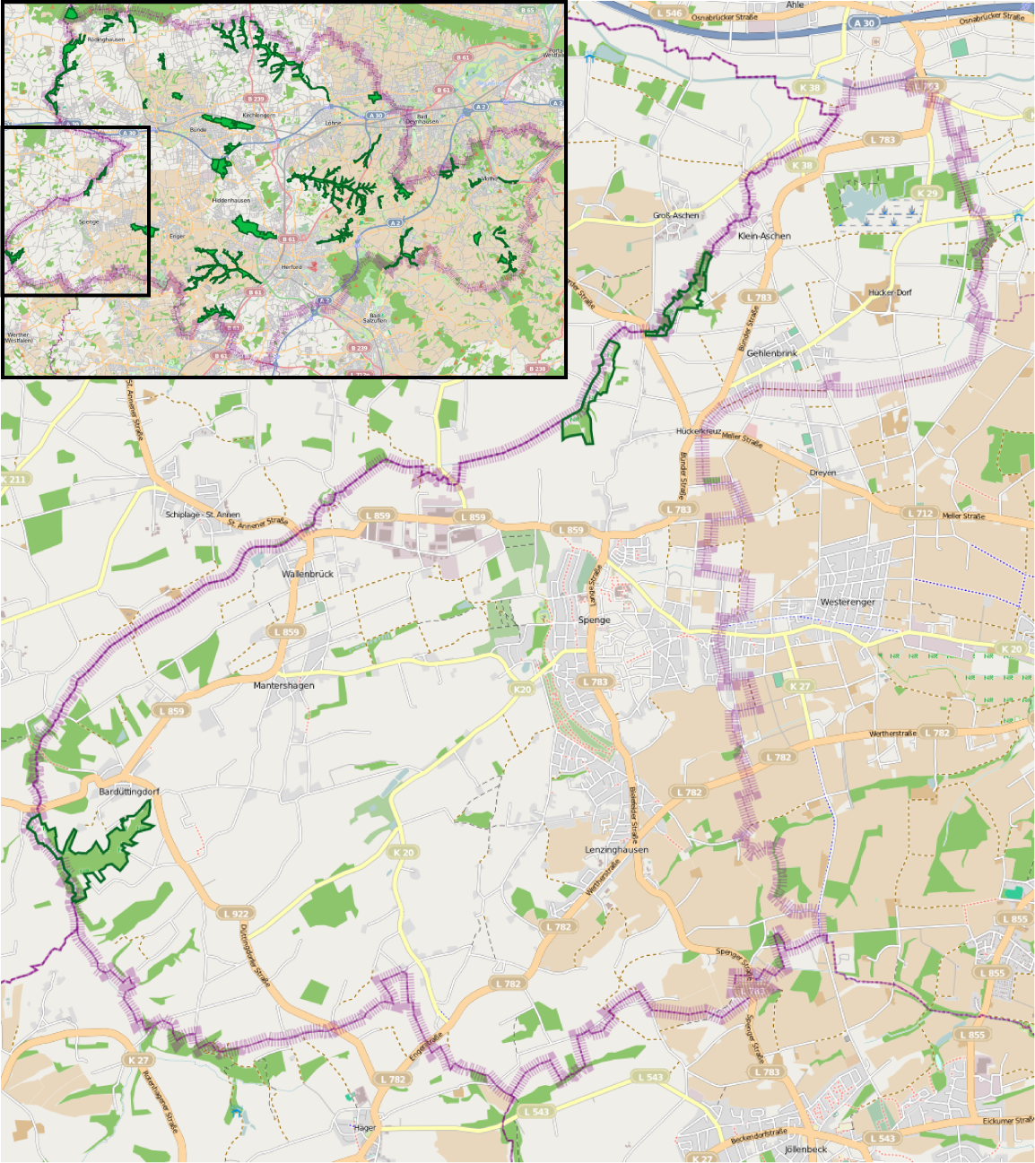 Nature reserves in Spenge - overview map Number and borders of nature reserves are subject to frequent change. In order to facilitate reproduction of this map from openstreetmap, the following data is stored here: export boundaries: north: 52.195; west: 8.4; east: 8.545; south: 52.095; mapnik svg, scale 1:50.000 nature reserve boundary stroke weight 3.5; nature reserve stroke color: R 5, G 102, B 36; district border stroke weight: 20